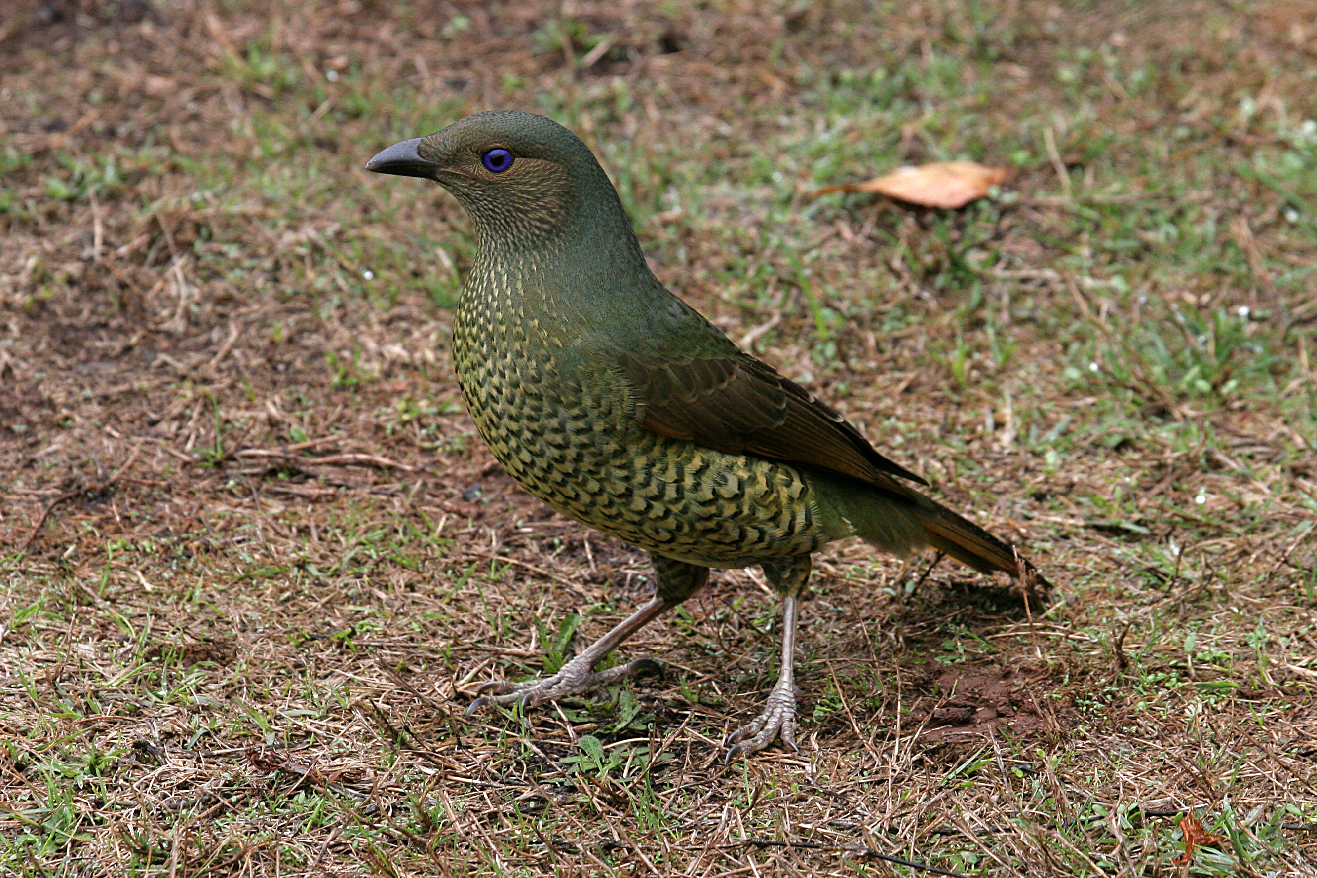 Satin Bowerbird (Ptilonorhynchus violaceus), Jamieson Vic